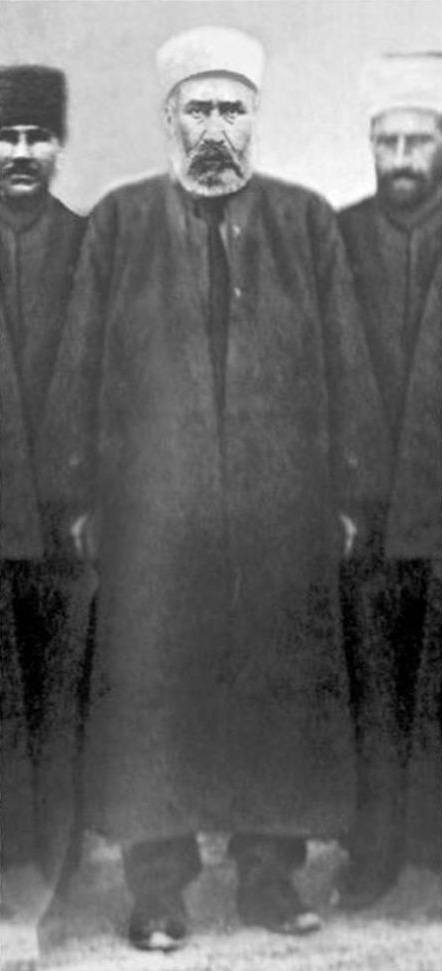 Mehmed Atif Efendi (İskilipli Mehmed Âtıf Hoca, 1875 - February 4, 1926) before his execution.